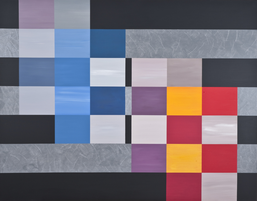 Ryszard Hunger, Imago XXXI, acrylic on canvas, 2010, 105x130 cm